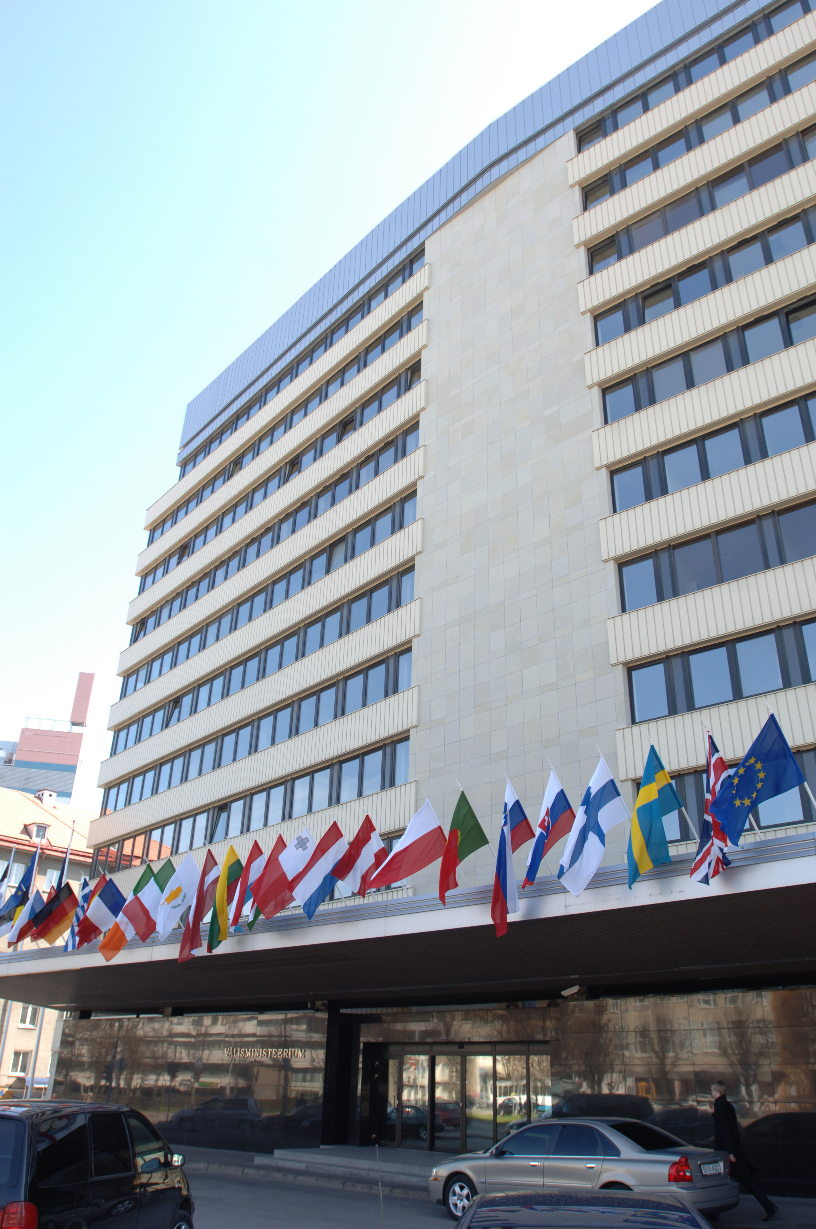 Estonian foreign ministry building facade